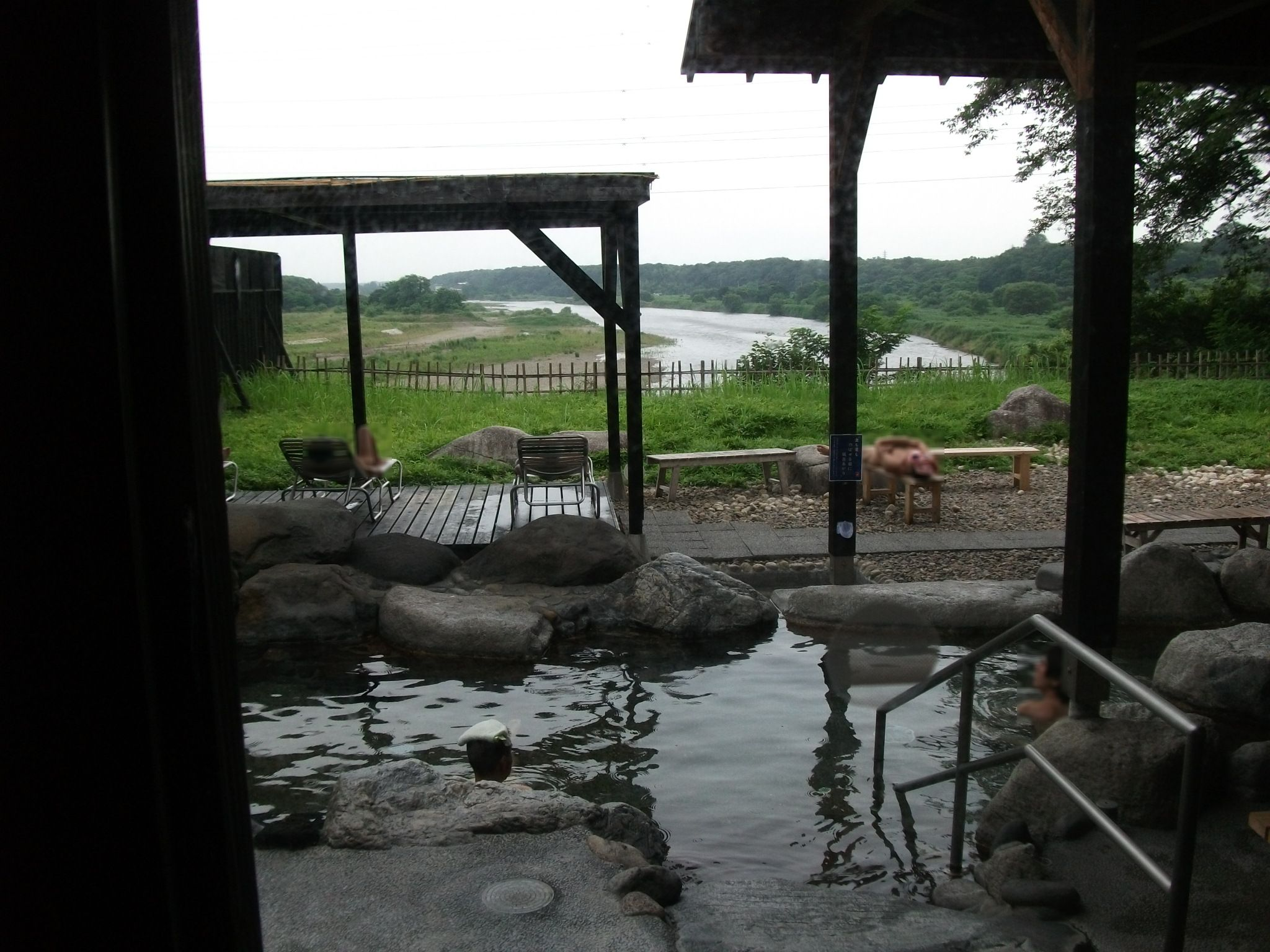 Rotenburo in Oyamaonsen Omoigawa (Tochigi, Japan)